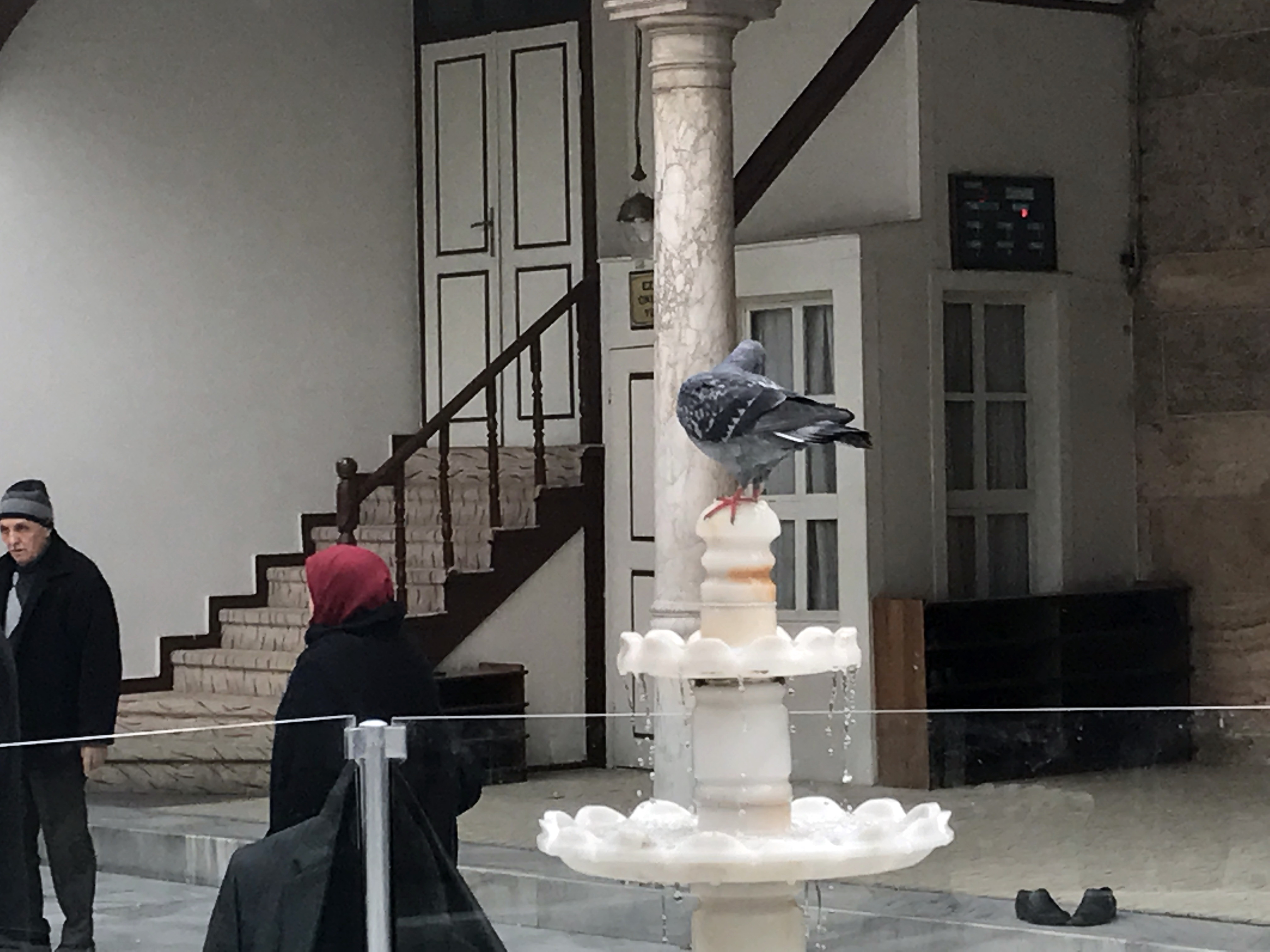 Emir Sultan Mosque in Bursa, Turkey.